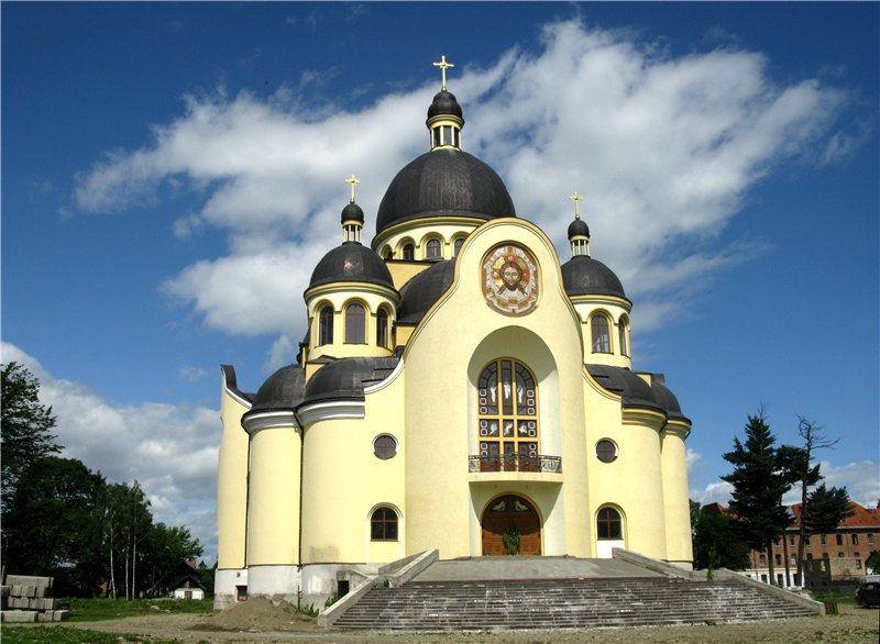 Transfiguration Cathedral in Kolomyia, Ivano-Frankivsk Oblast, Ukraine